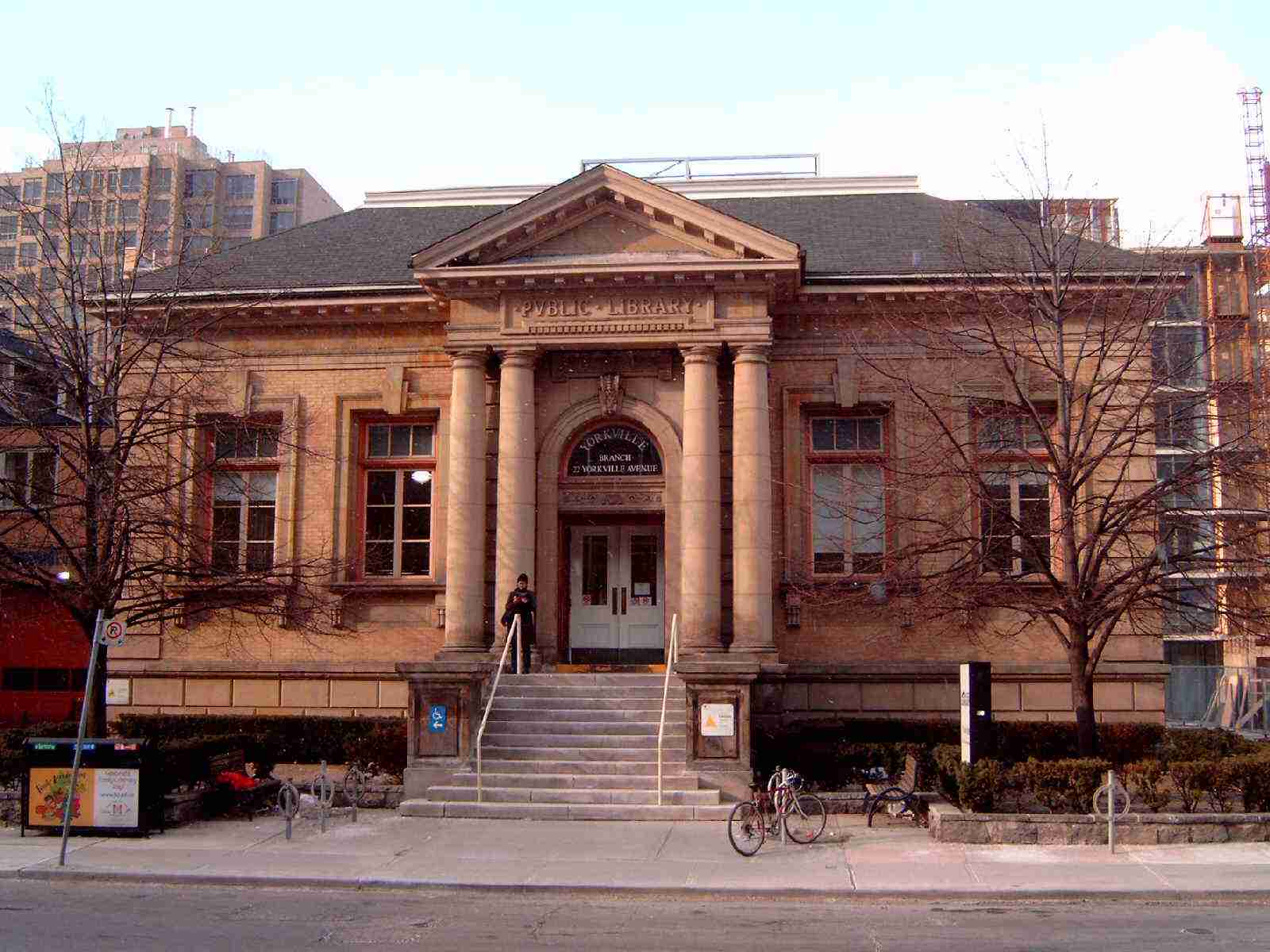 Yorkville Public Library, Toronto. A Carnegie library built in 1906.